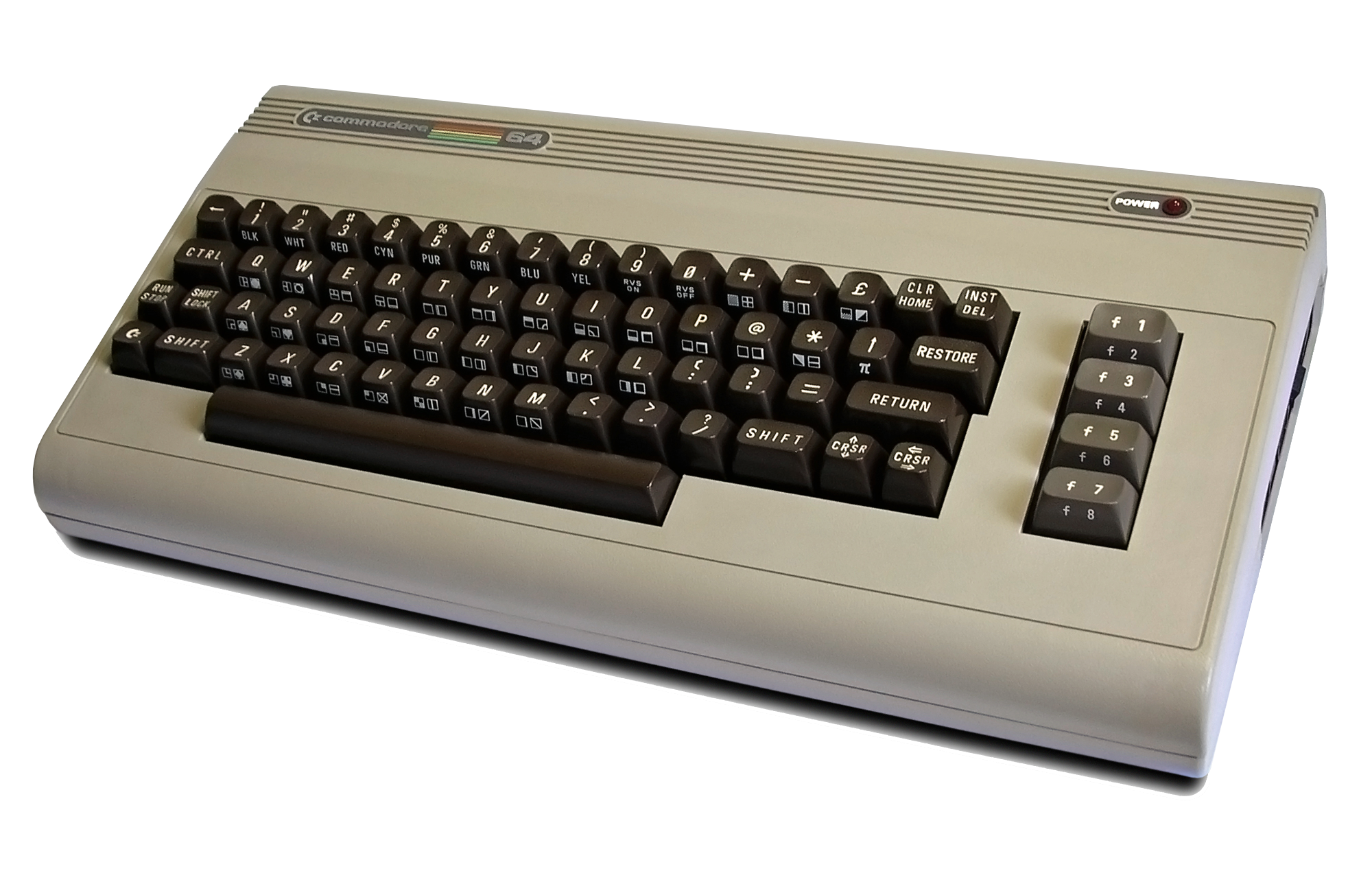 Commodore 64 computer (1982).